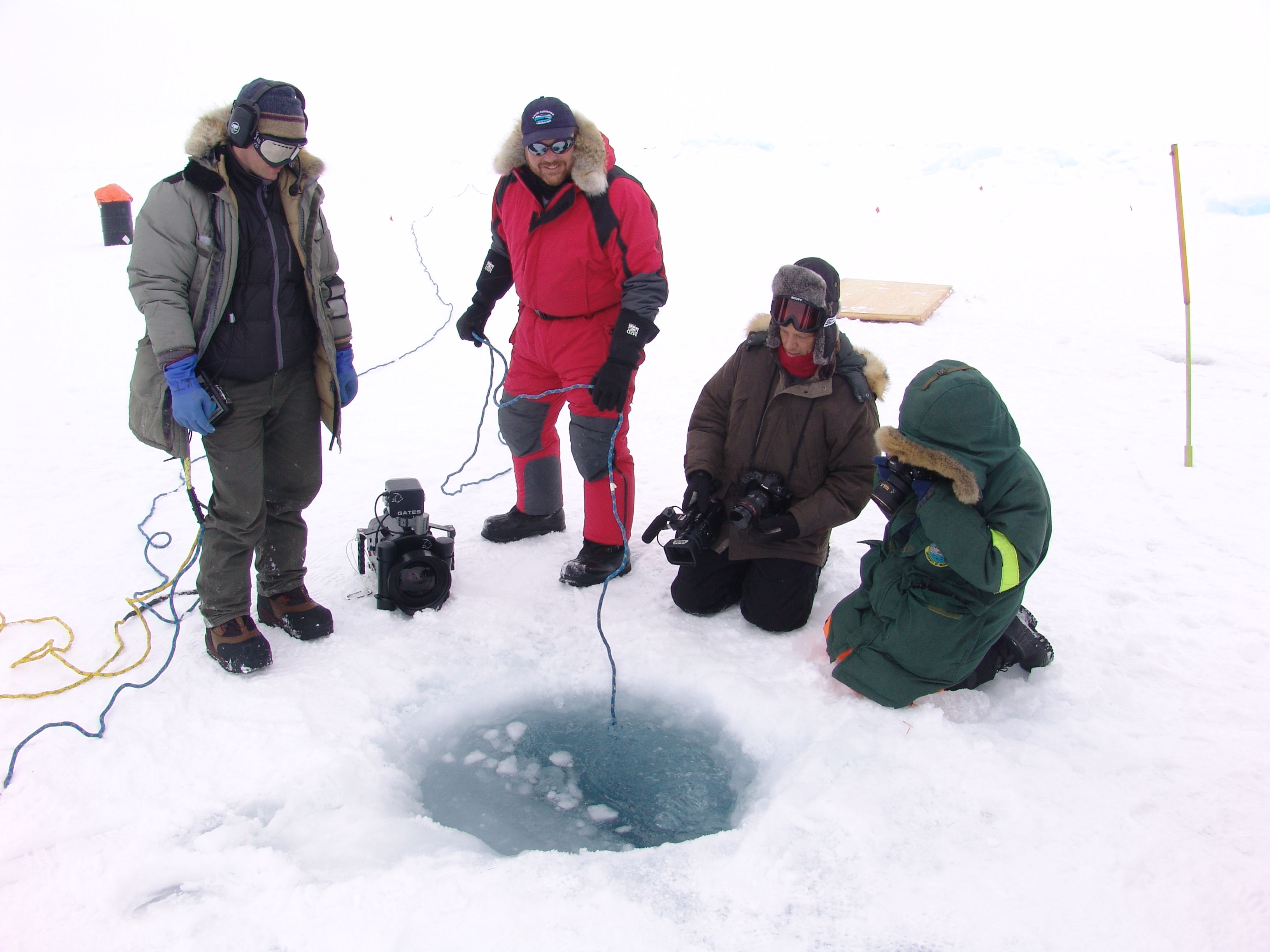 Monitoring an ice diver conducting studies below the ice. April 7, 2007.